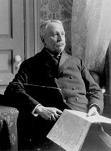 Portrait of Addison Gardner Foster of Washington